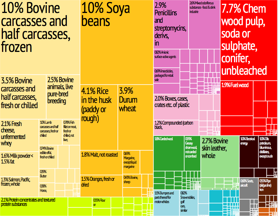 Uruguay Export Treemap from MIT Harvard Economic Complexity Observatory